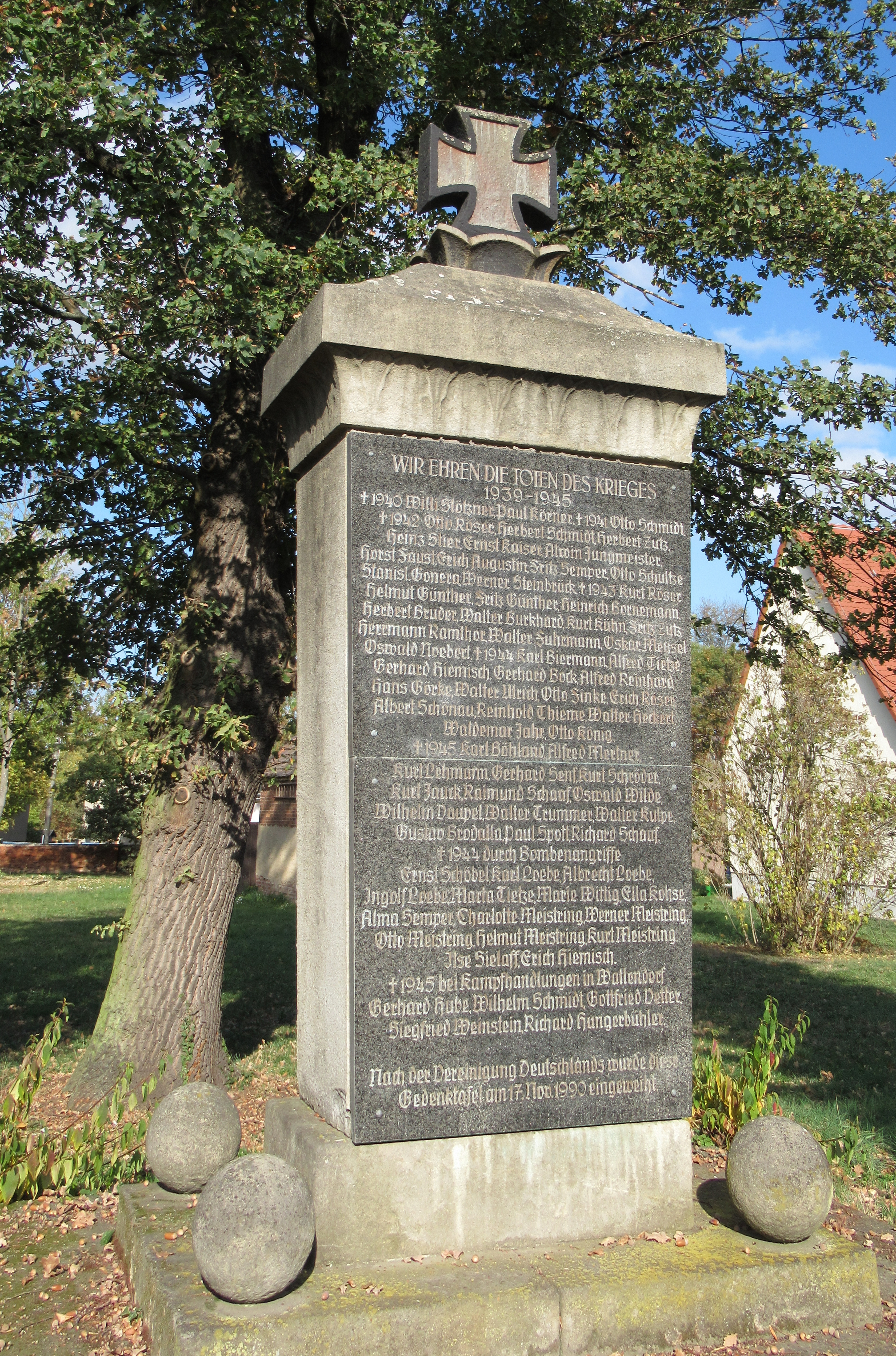 Wallendorf (Luppe) War Memorial 1939-1945